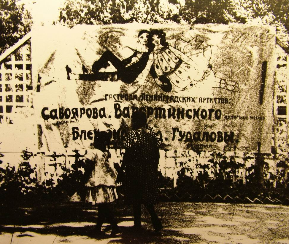 Mikhail Savoiarov & "Alexandr Valertinsky" (pseudo-Vertinsky) - Afischa de concert: Kislovodsk, aout 1926